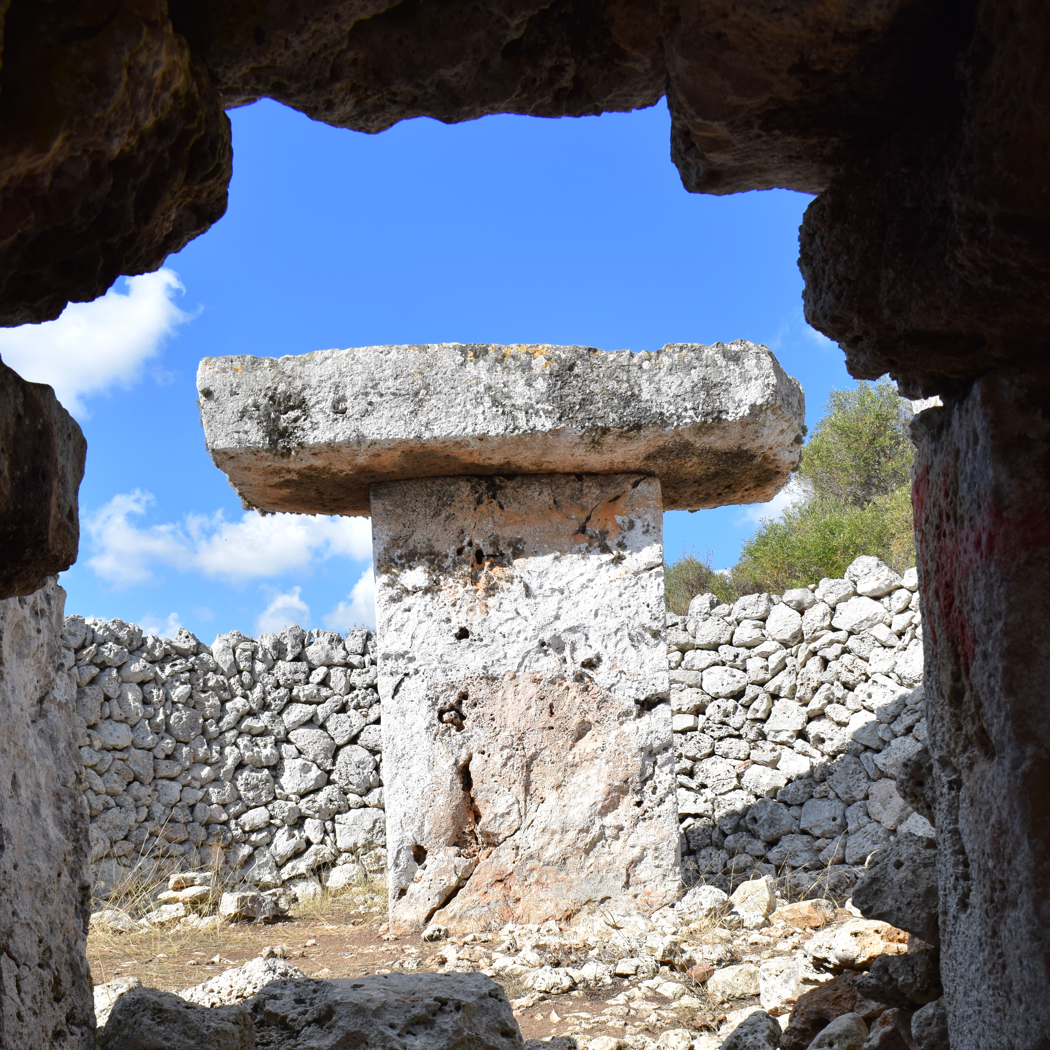 Torrellisar Vell Taula, Alaior, Minorca.